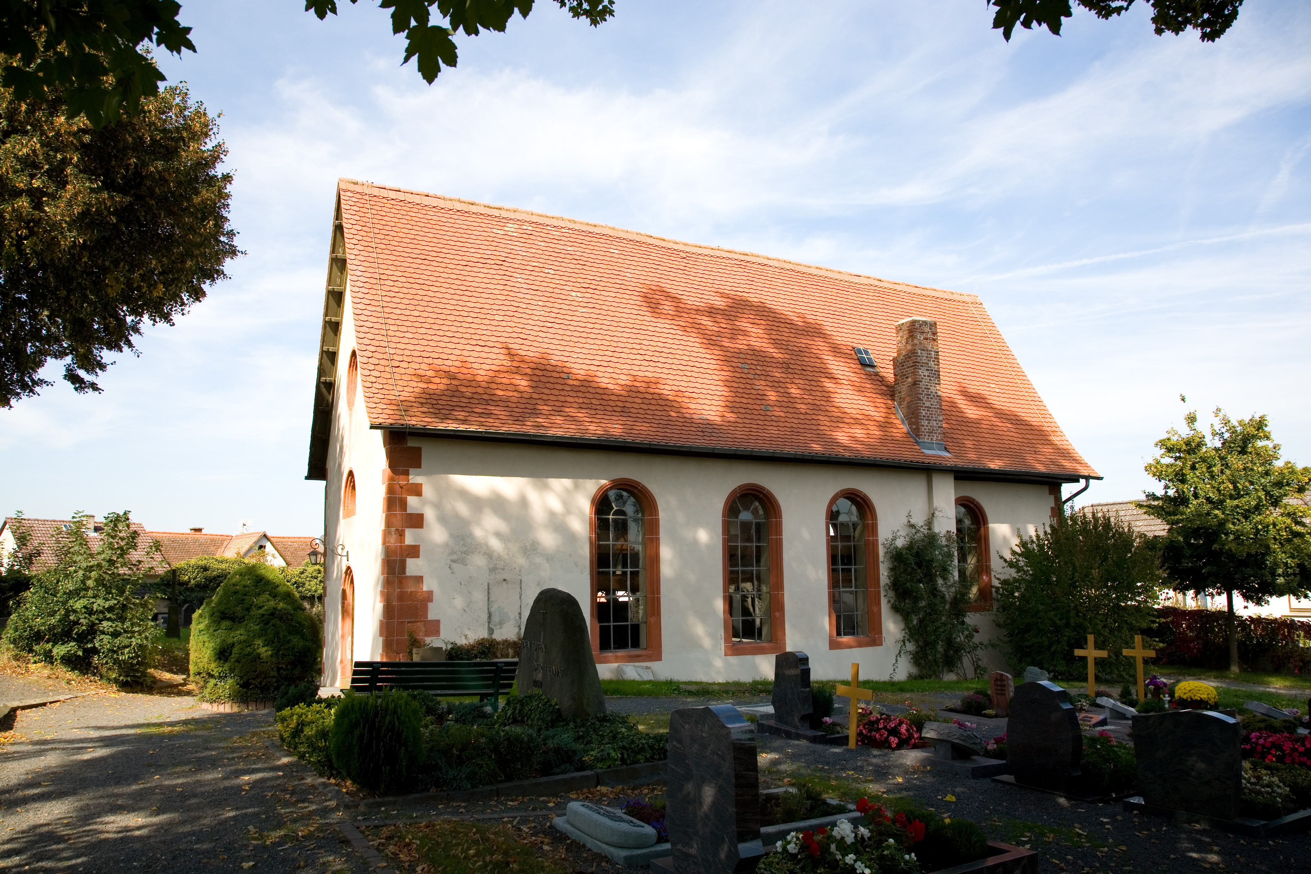 Fortified church in Brensbach/Wersau. The church with a detached tower was built in the 15th century on roman foundations. Parts of the construction date from the 12th century.